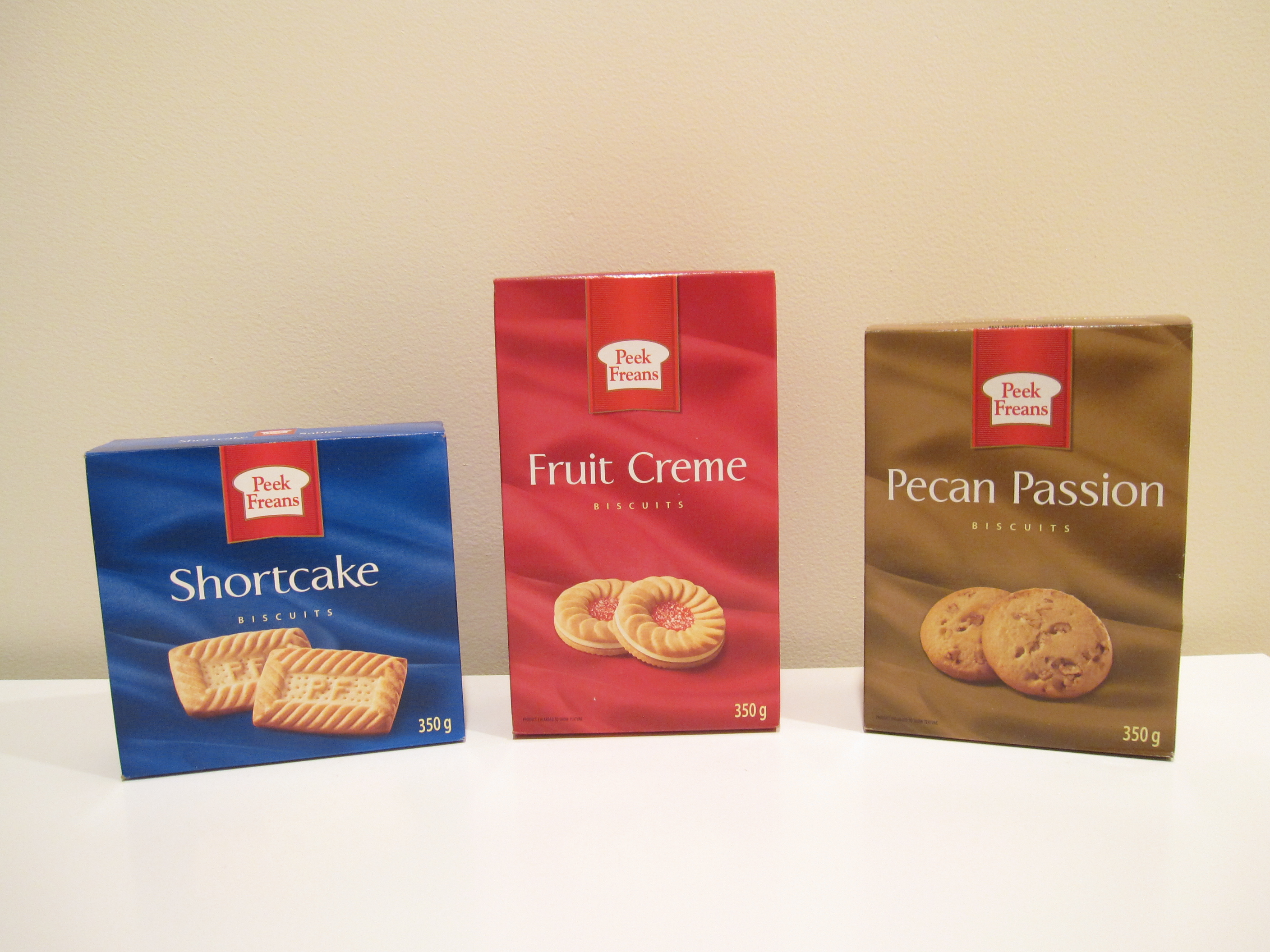 Peek Freans products.